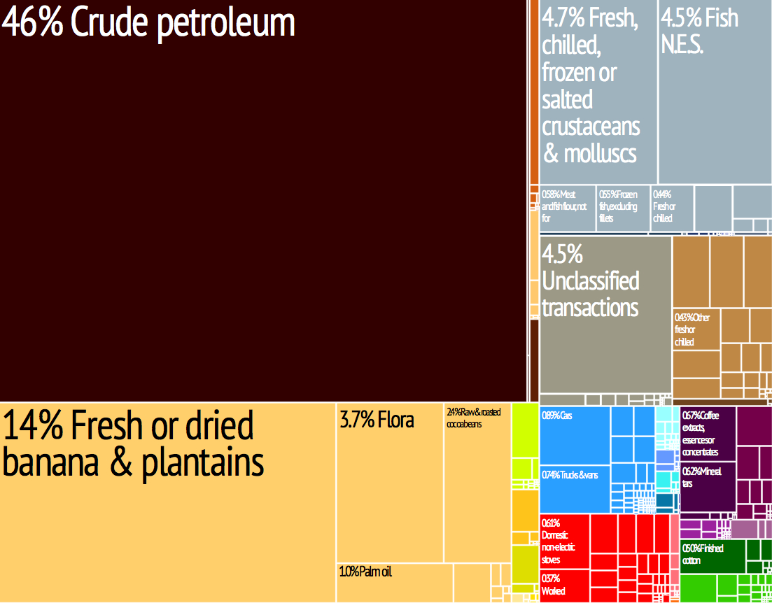 Export Trading Treemap. From MIT/Harvard Atlas of Economic Complexity